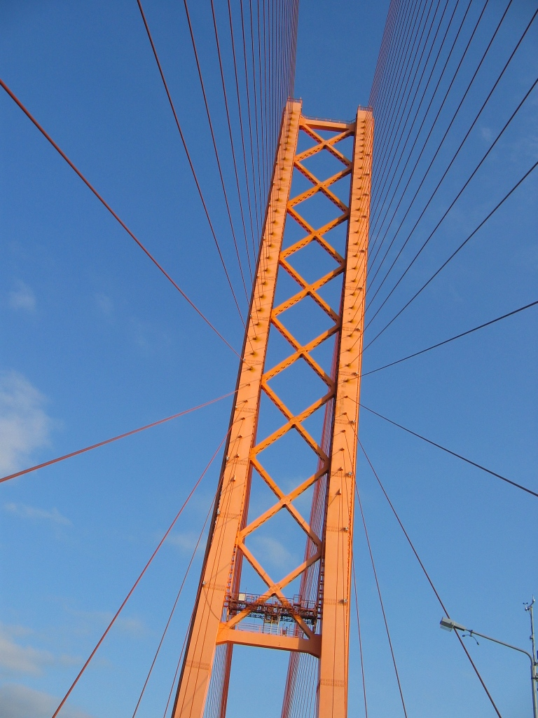 Cable-braced bridges. Surgut. Bridge over Ob river